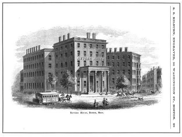 Illustration from: S.S. Kilburn. Specimens of designing and engraving on wood. Boston: ca.1865.